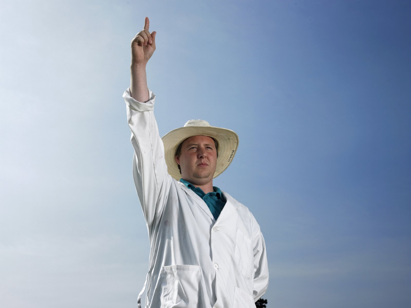 Cricket umpire making the signal to give a batsman out